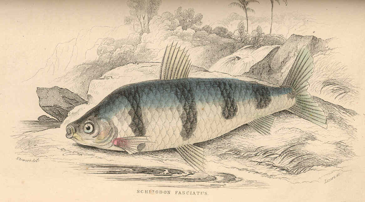 Schizodon fasciatus Subject: Curimata, Schizodon Tag: Fish